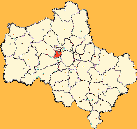 Moscow Region map by Al Silonov